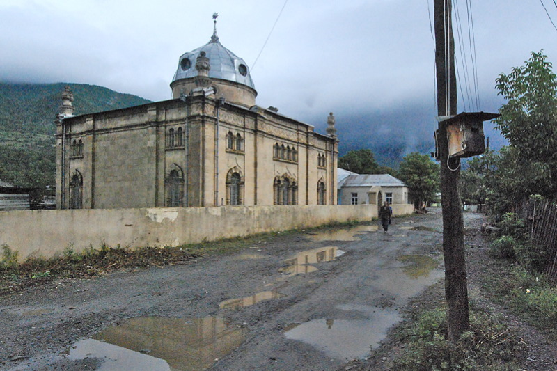 The Synagogue in Oni Georgia